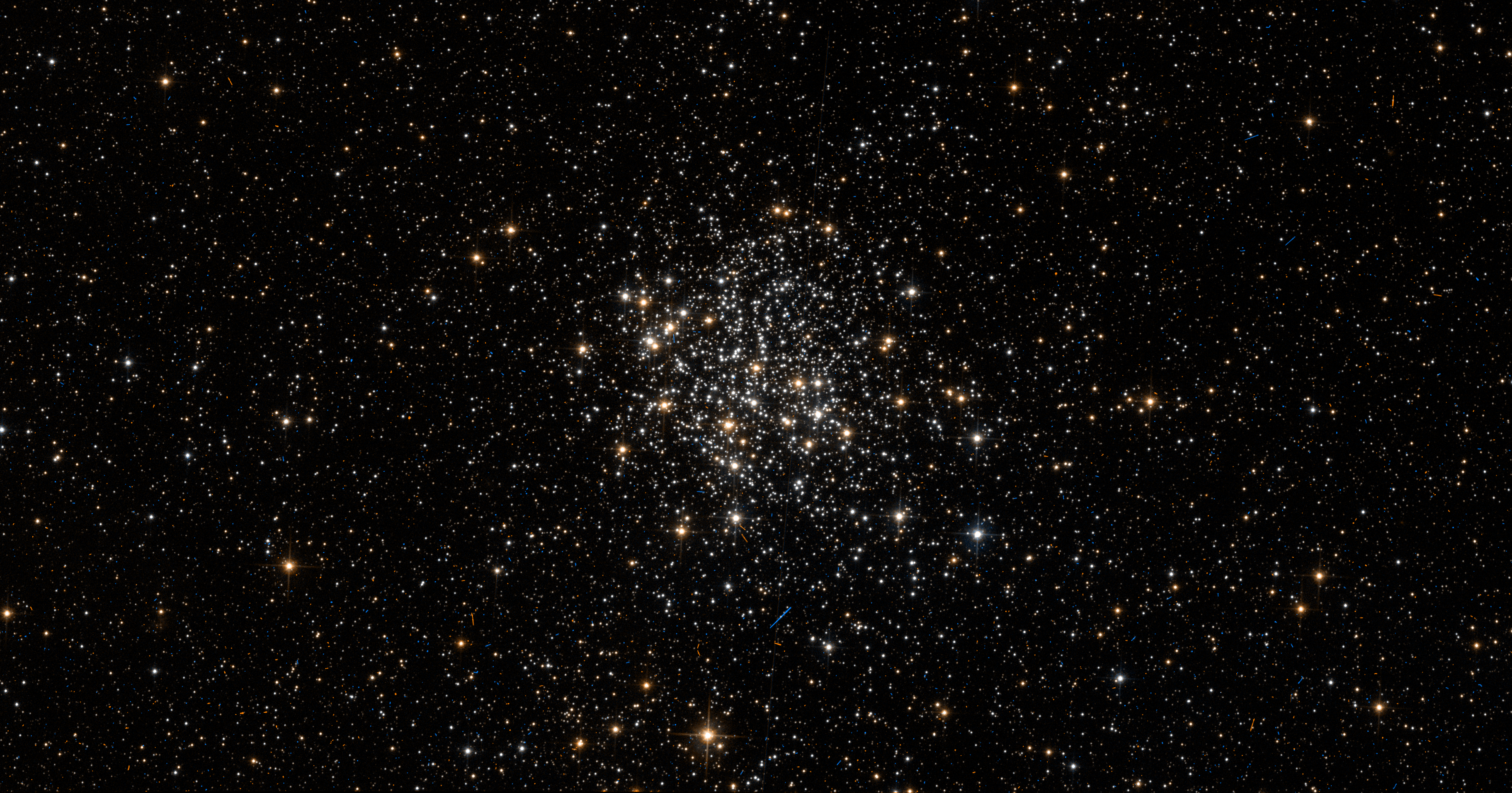 Color rendering is done by by Aladin-software (2000A&AS..143...33B.)